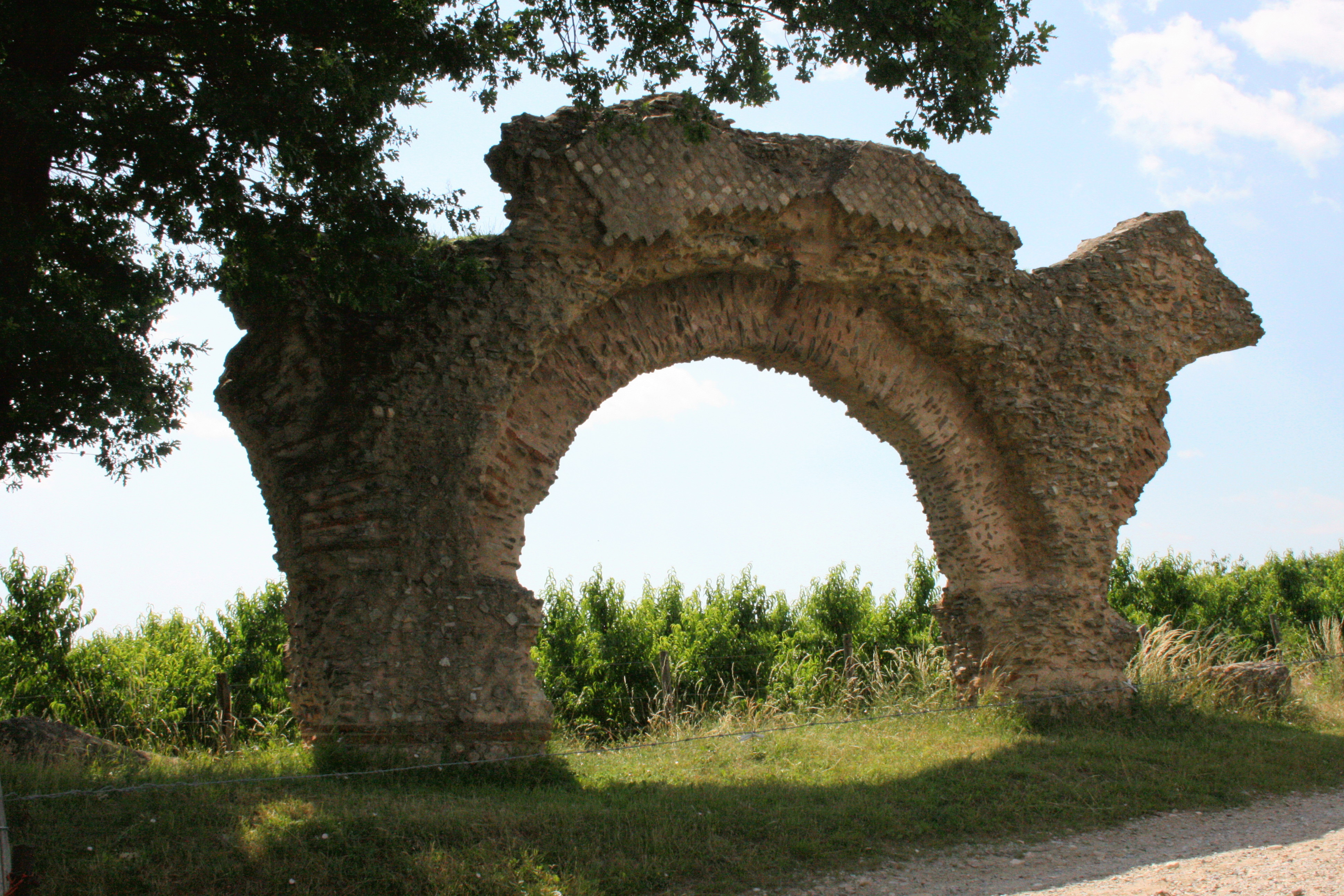 Municipality of Soucieu-en-Jarrest, département du Rhône (France), hamlet "Le Grand Champ". Ruins of the Roman aqueduct of the Gier river (1st century AD), supplying the city of Lugdunum (modern Lyon) with water. Arch known as "Le Chameau" (The Camel in French). Opus reticulatum